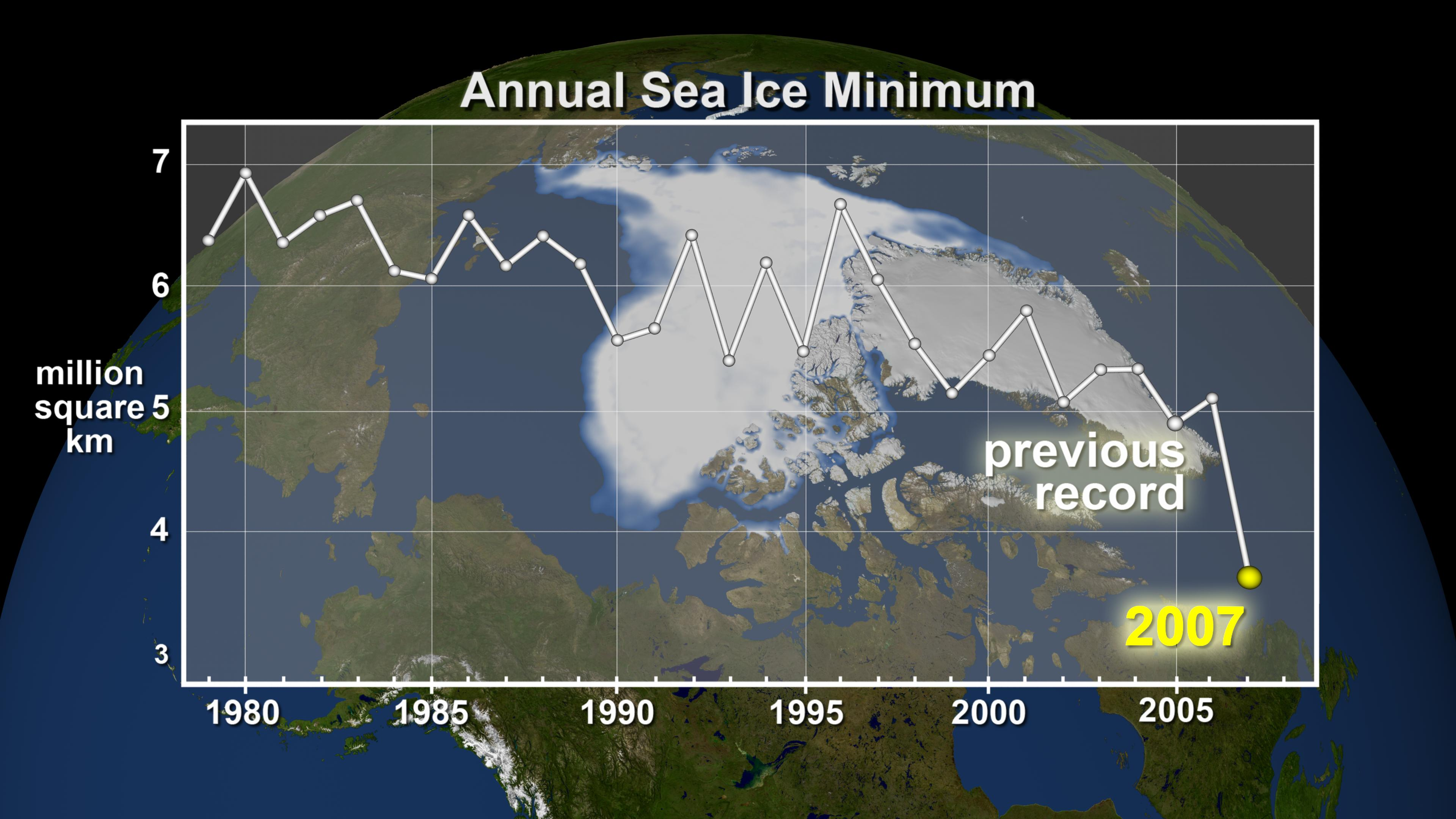 September ice extent from 1979 to 2007 shows an obvious decline. At the end of each summer, the sea ice cover reaches its minimum extent and the ice that remains is called the perennial ice cover, which consists mainly of thick multi-year ice floes. The area of the perennial ice has been steadily decreasing since the satellite record began in 1979, at a rate of about 10% per decade. But the 2007 minimum, reached around Sept. 14, is far below the previous record made in 2005 and is about 38% lower than the climatological average. This data visualization shows the annual sea ice minimum from 1979 through 2007.